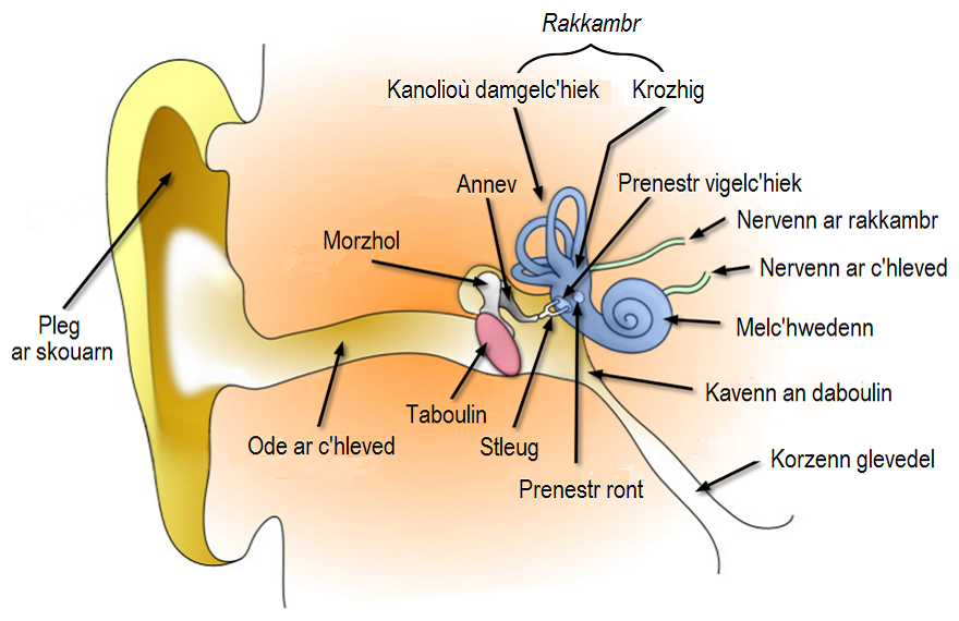 Breton version of OreilleHumaine.png